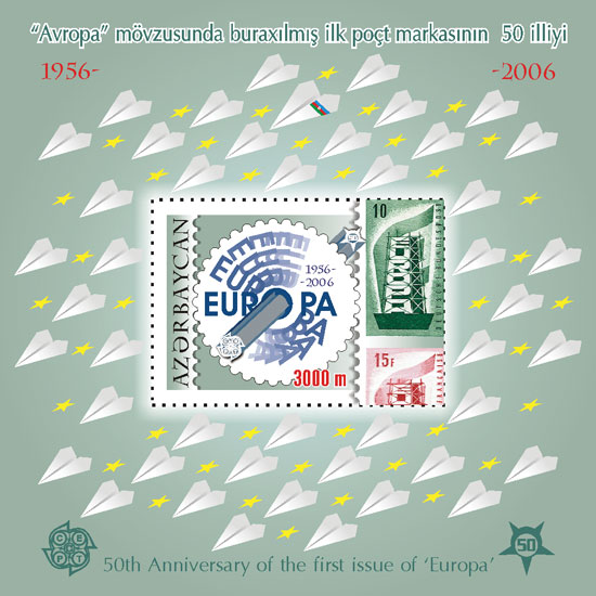 Stamp of Azerbaijan